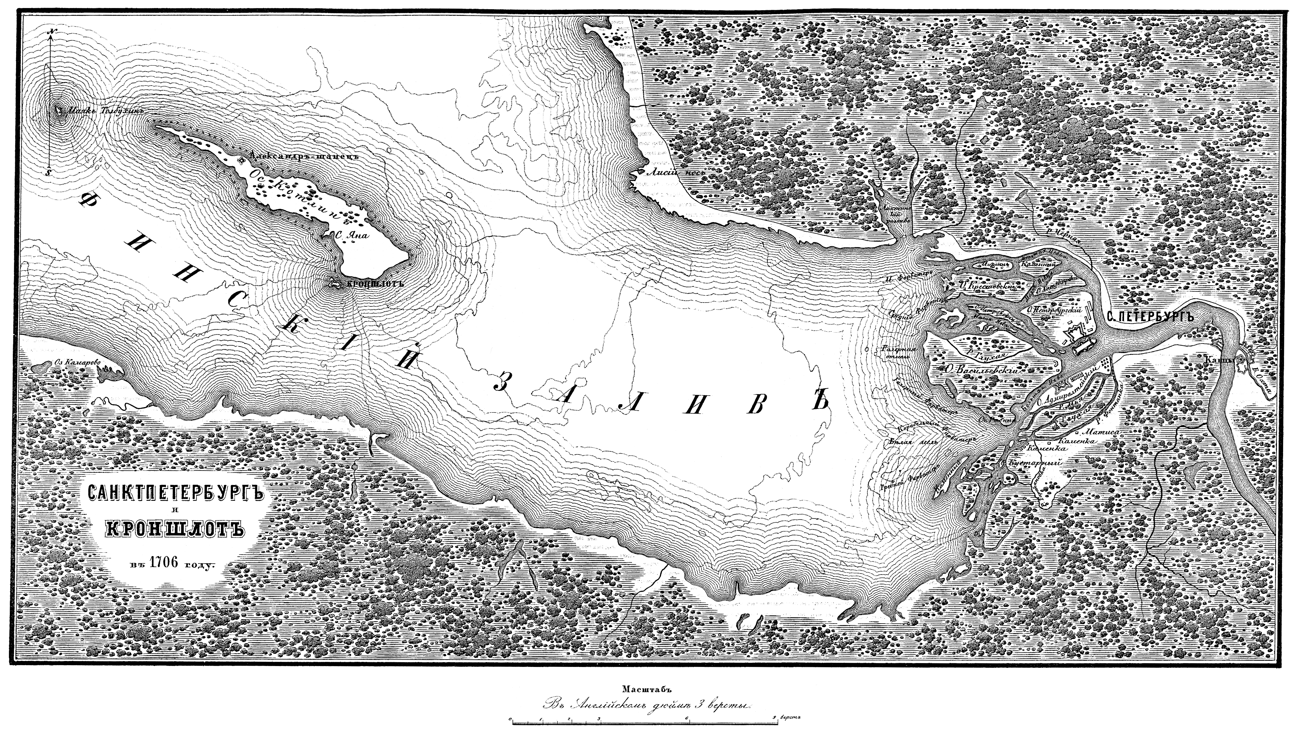 St.-Petersburg and the Kronschlott in 1706